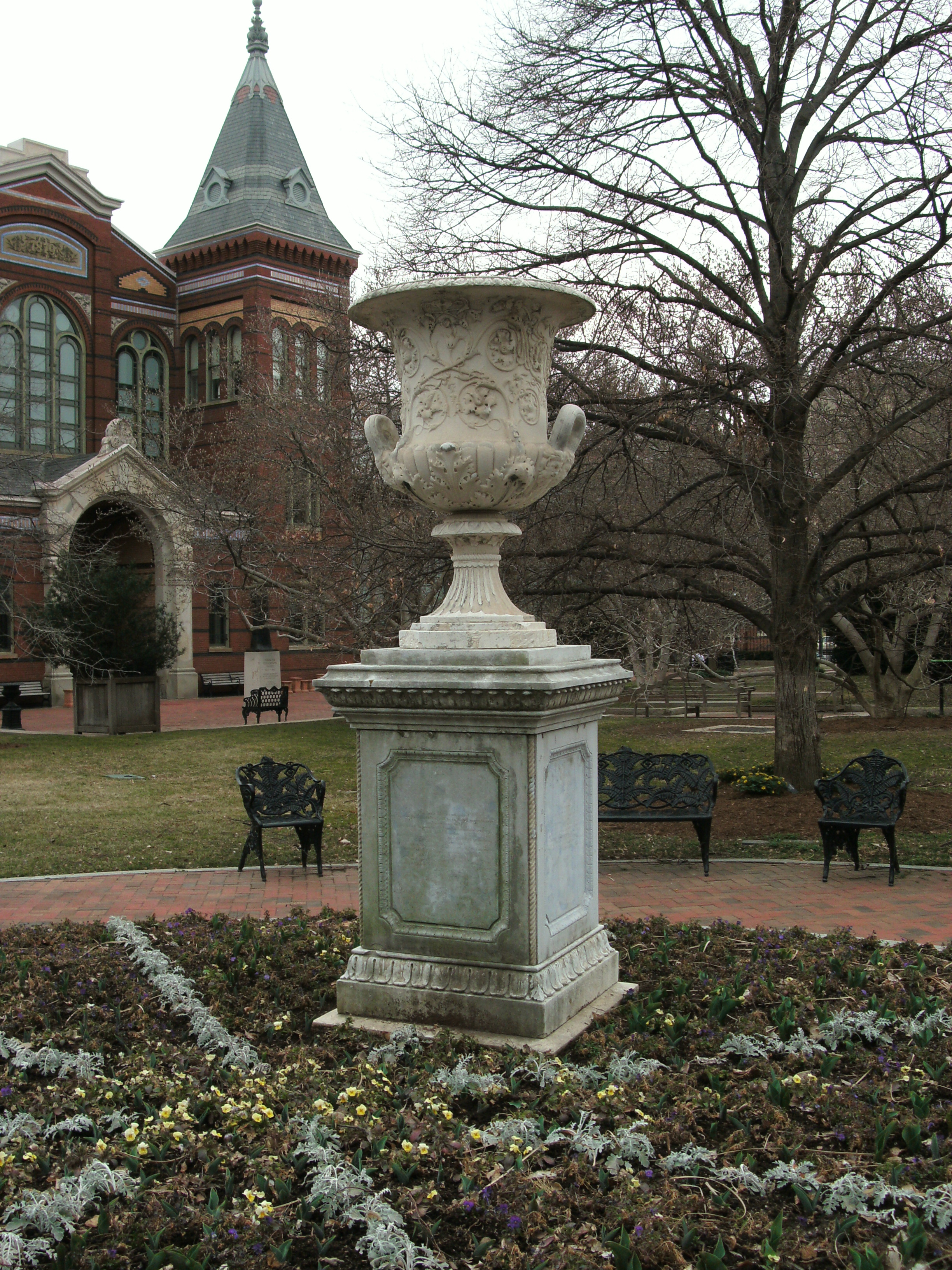 Andrew Jackson Downing memorial urn sculpted by Robert Eberhard Launitz, in the Enid A. Haupt Garden with the Smithsonian Institution's Arts and Industries Building in the background